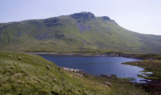 Llynnau Barlwyd & Moel Penamnen. Llynnau Barlwyd are two connected reservoirs. The old dam wall of the lower south western one can be seen middle right of the picture with the escarpment of Moel Penamnen above.